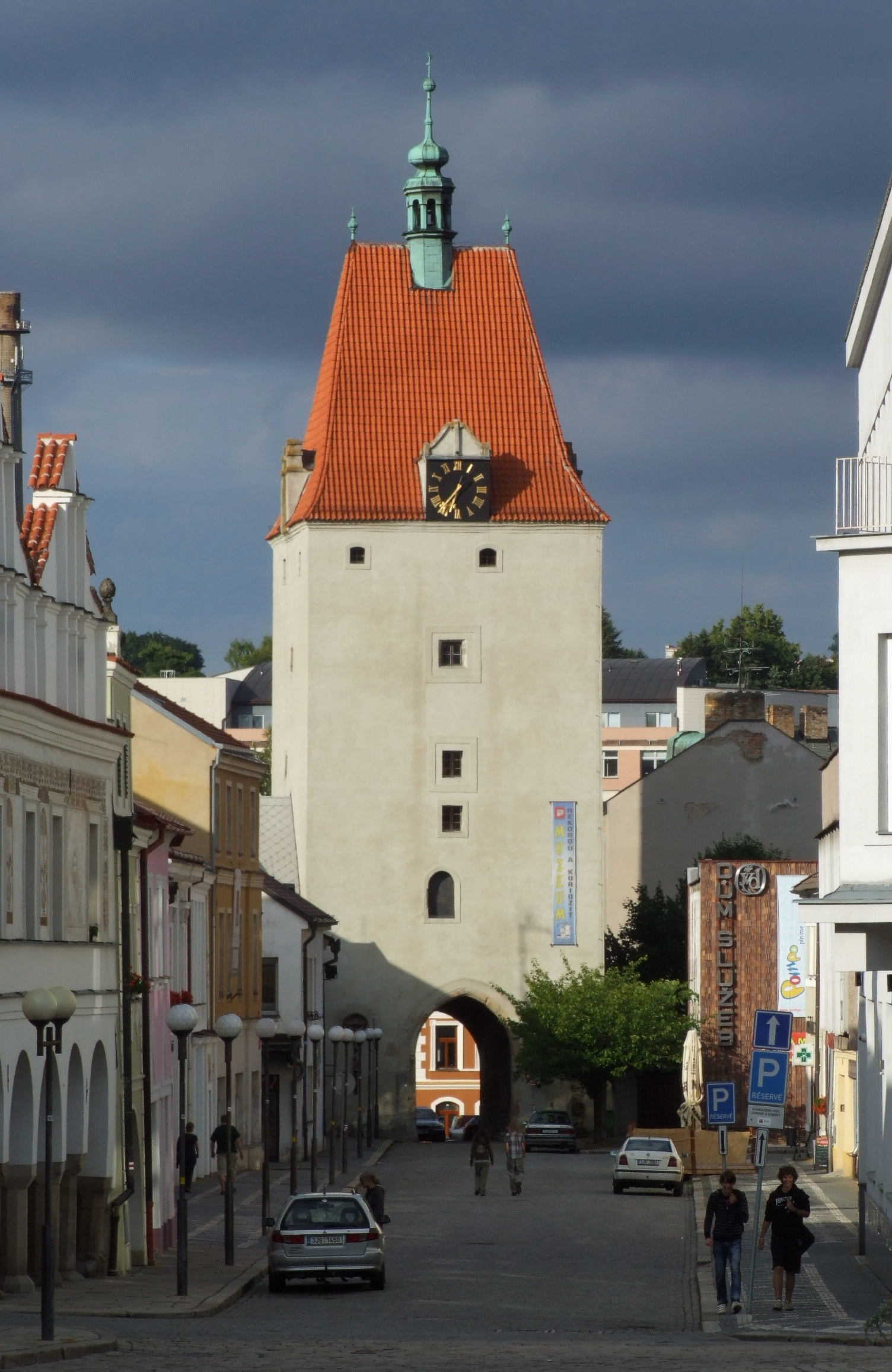 Pelhřimov - Jihlav Gatehouse